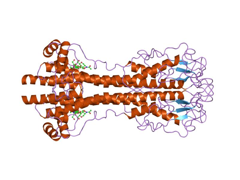 Cartoon representation of the molecular structure of protein registered with 1vsg code.